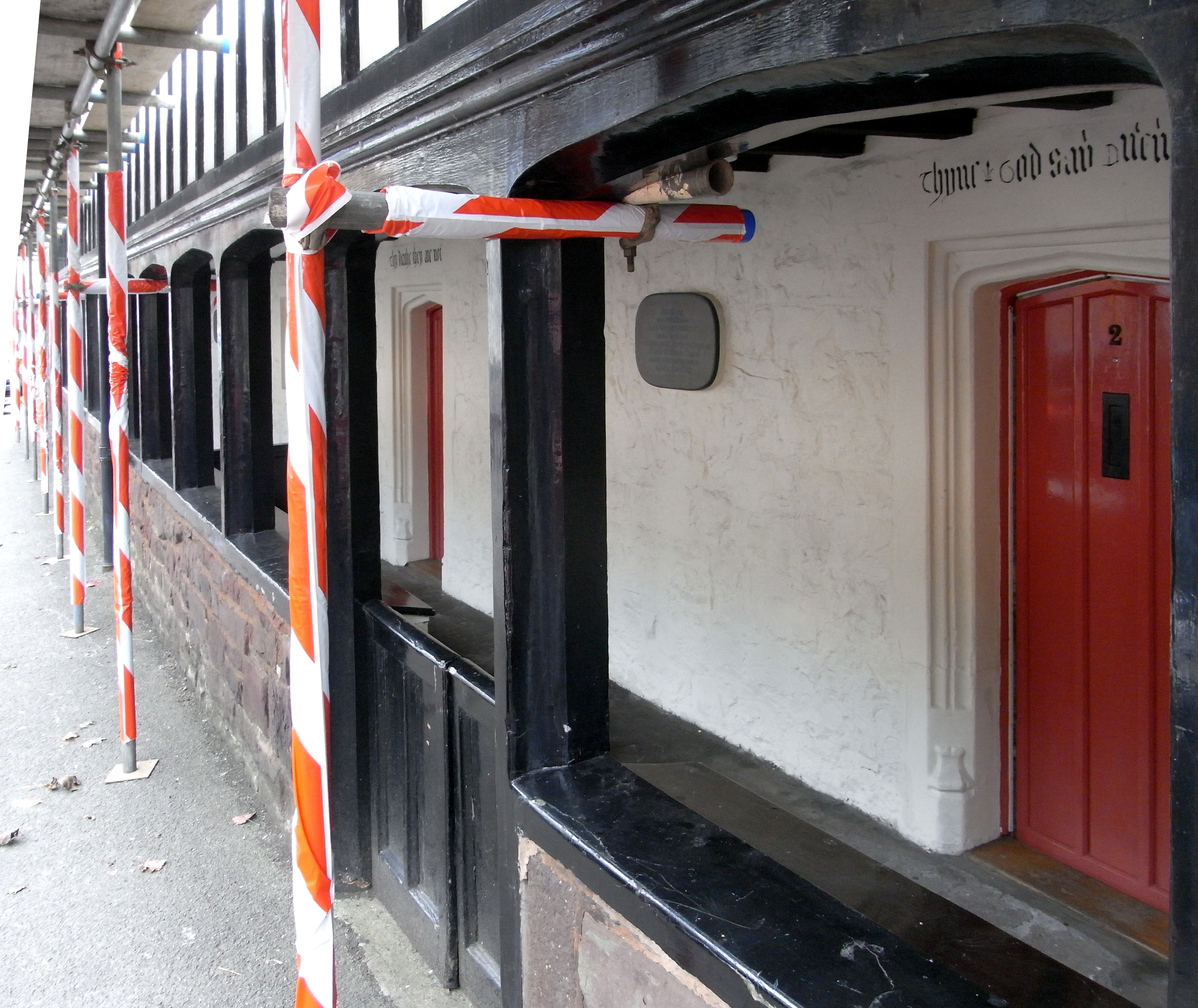 Waldron's Almshouses, Tiverton, Devon, founded 1579. View of the doors to four of the rooms on the ground-floor.